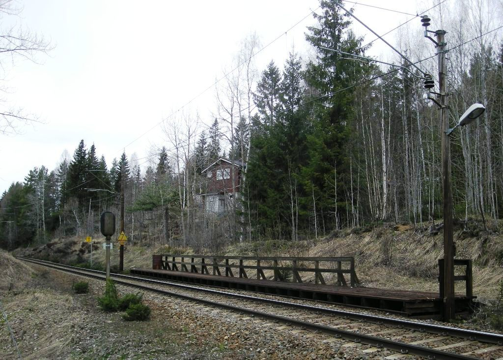 Rundelen station on the Gjøvik line